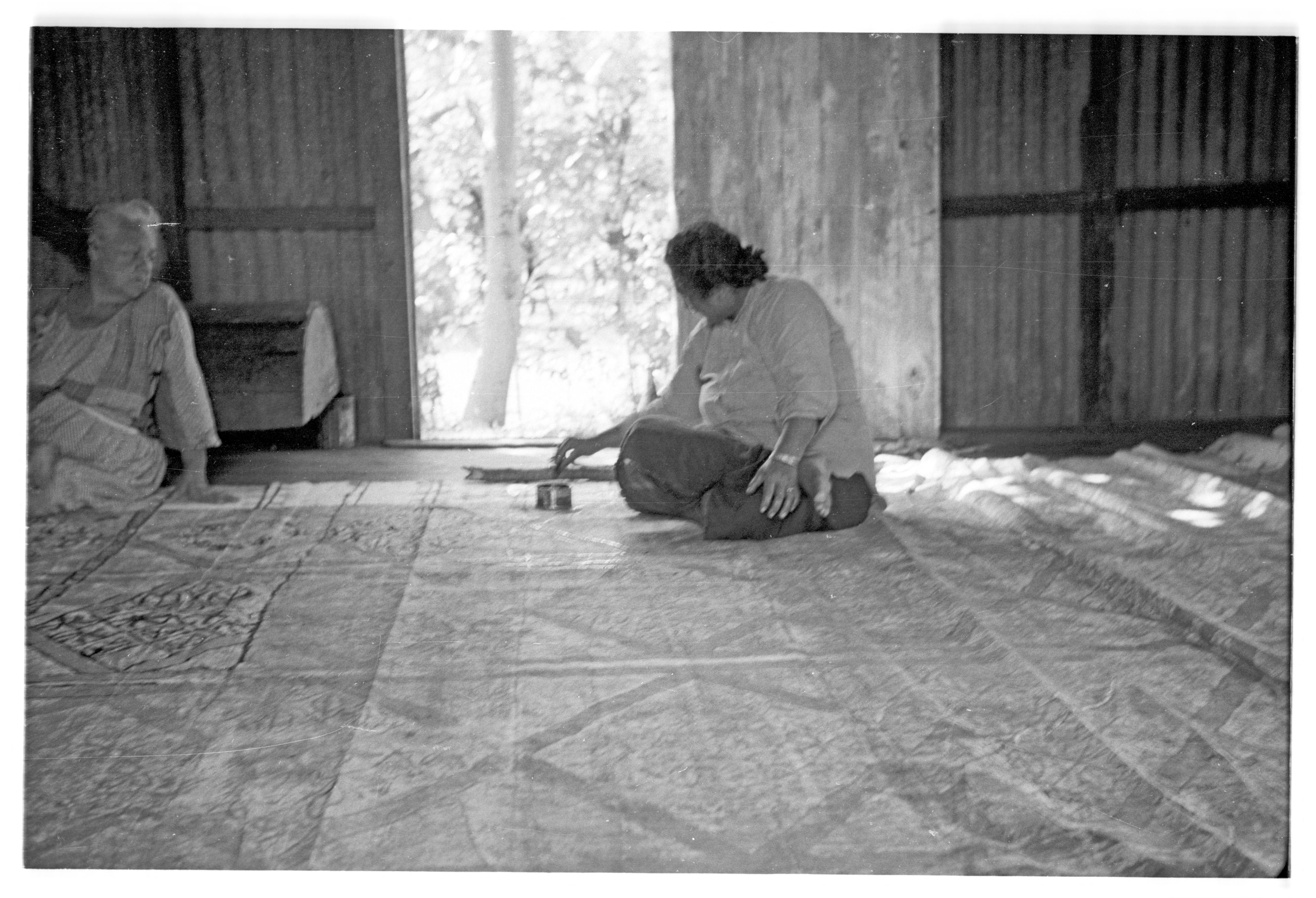 A photograph showing a tongan woman in Tongatapu painting barkcloth (tapa). Photo by Ruth Bookman.